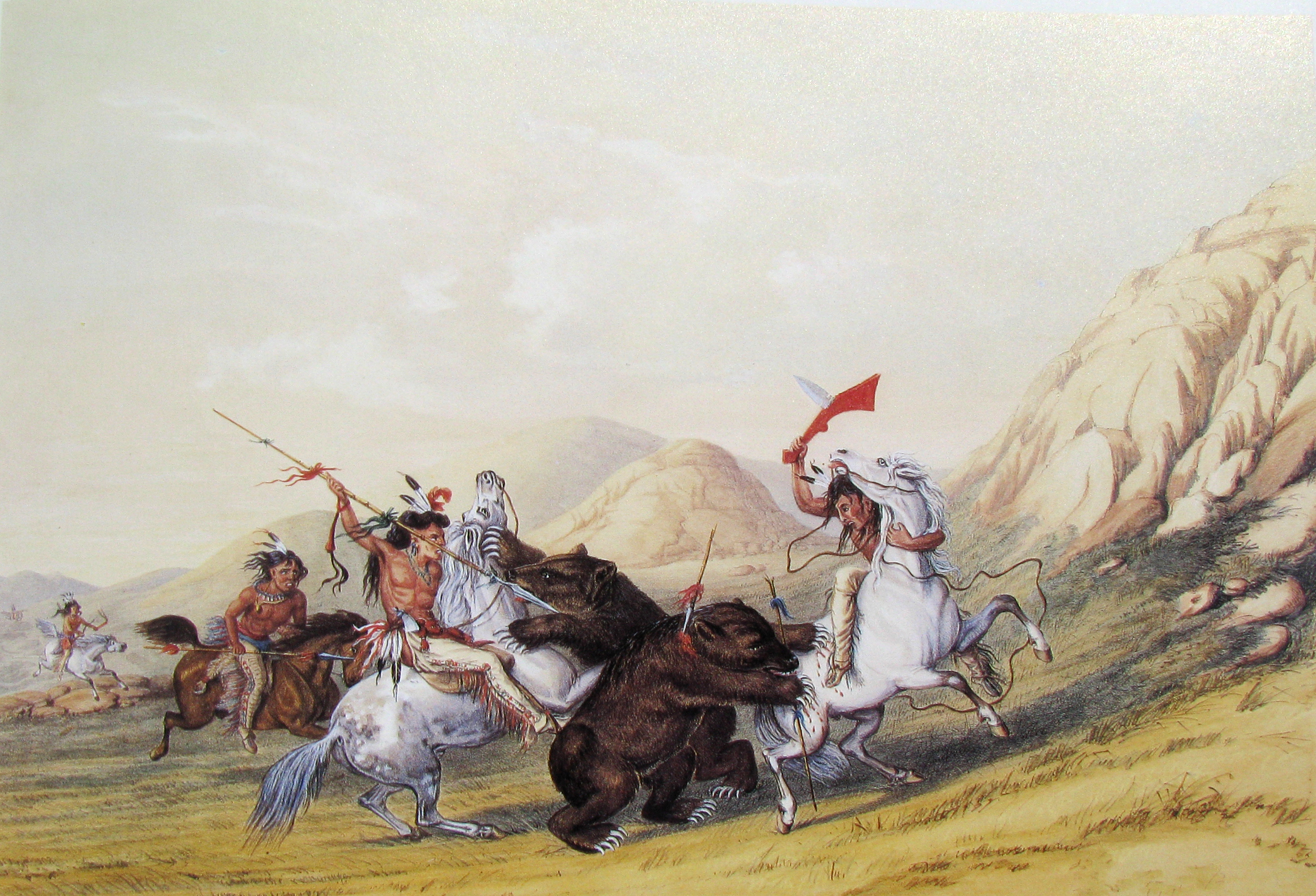 American Indians on a grizzly bear hunt.